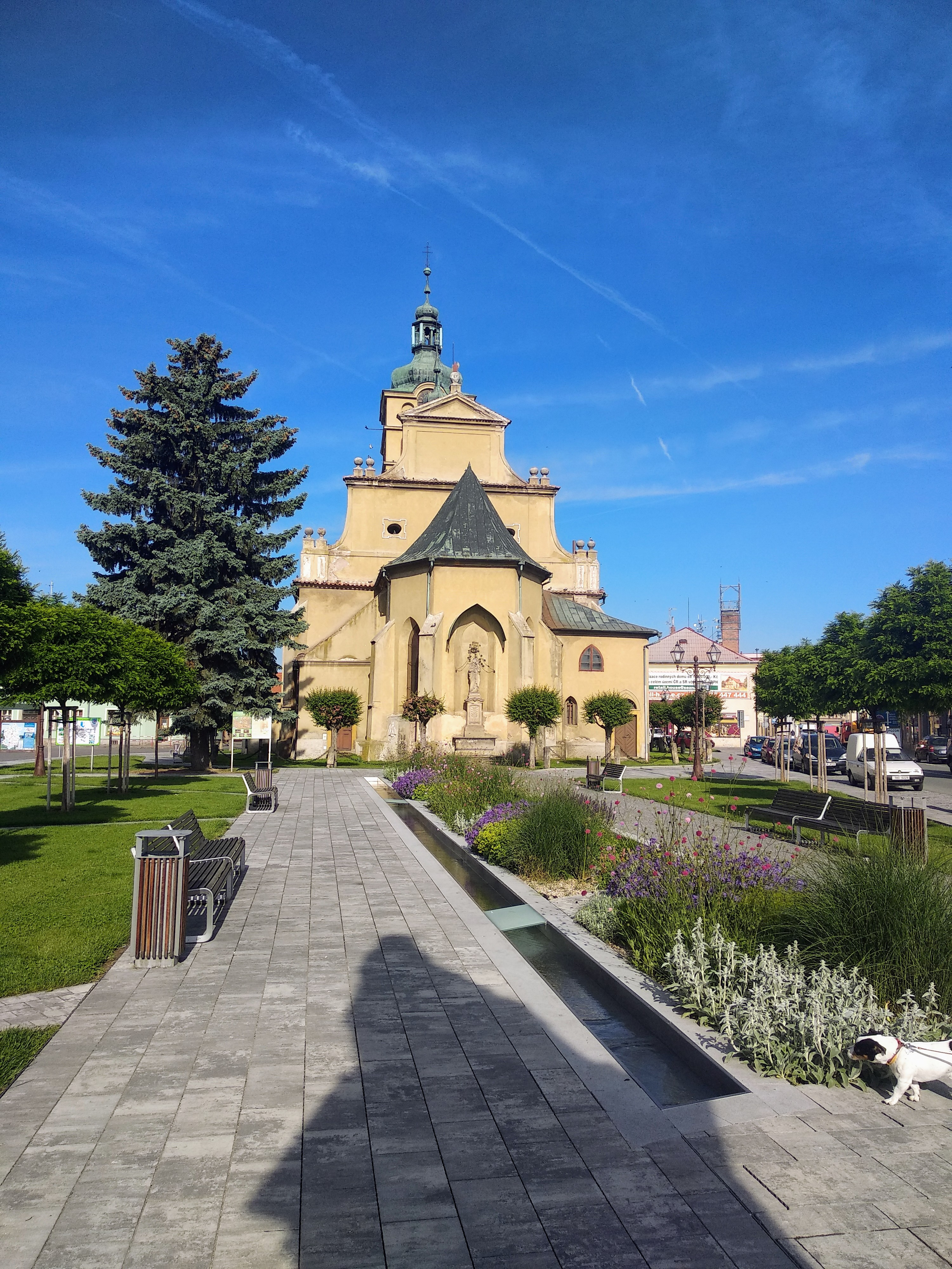 church